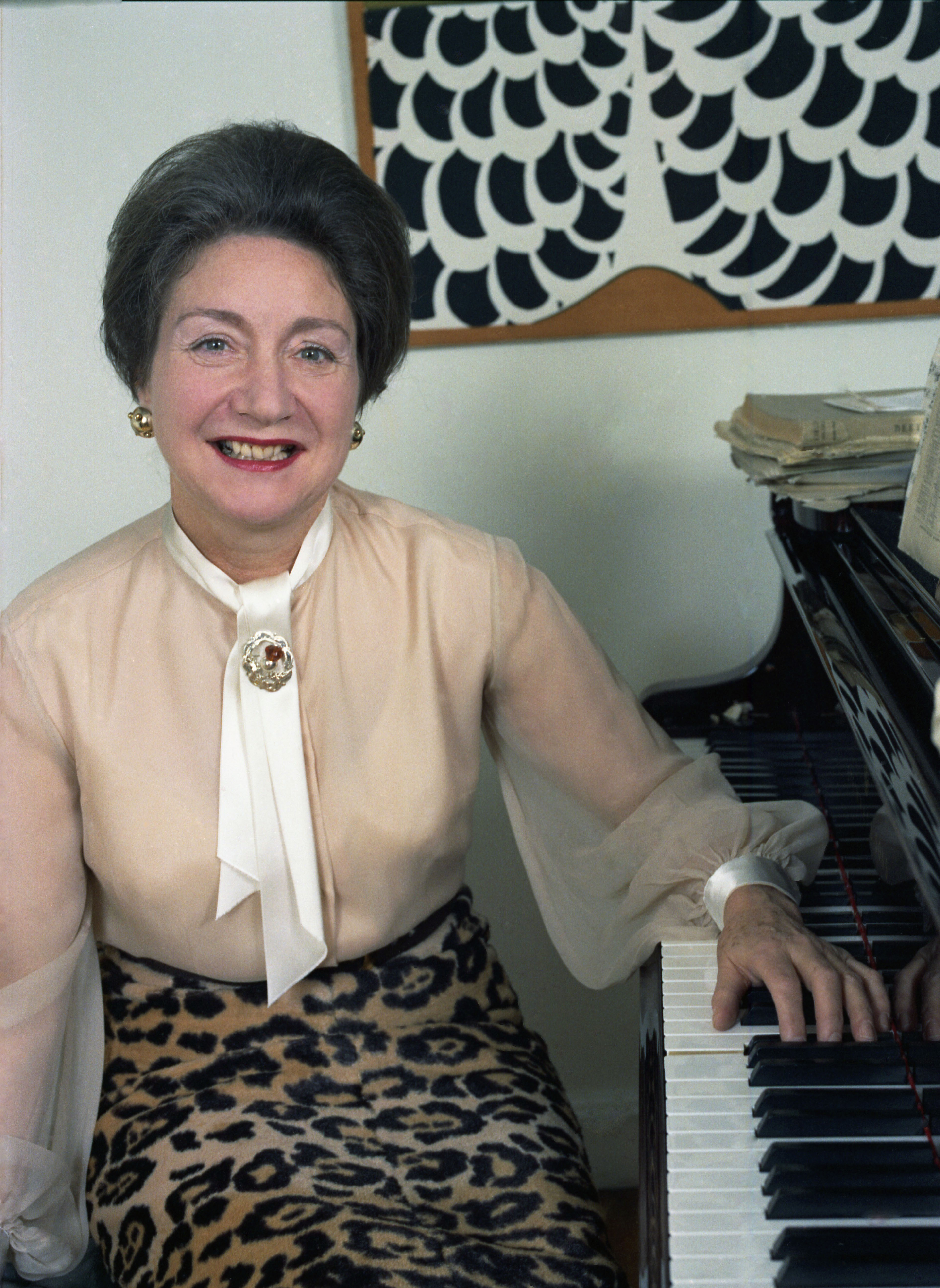 Dame Moura Lympany at home in London